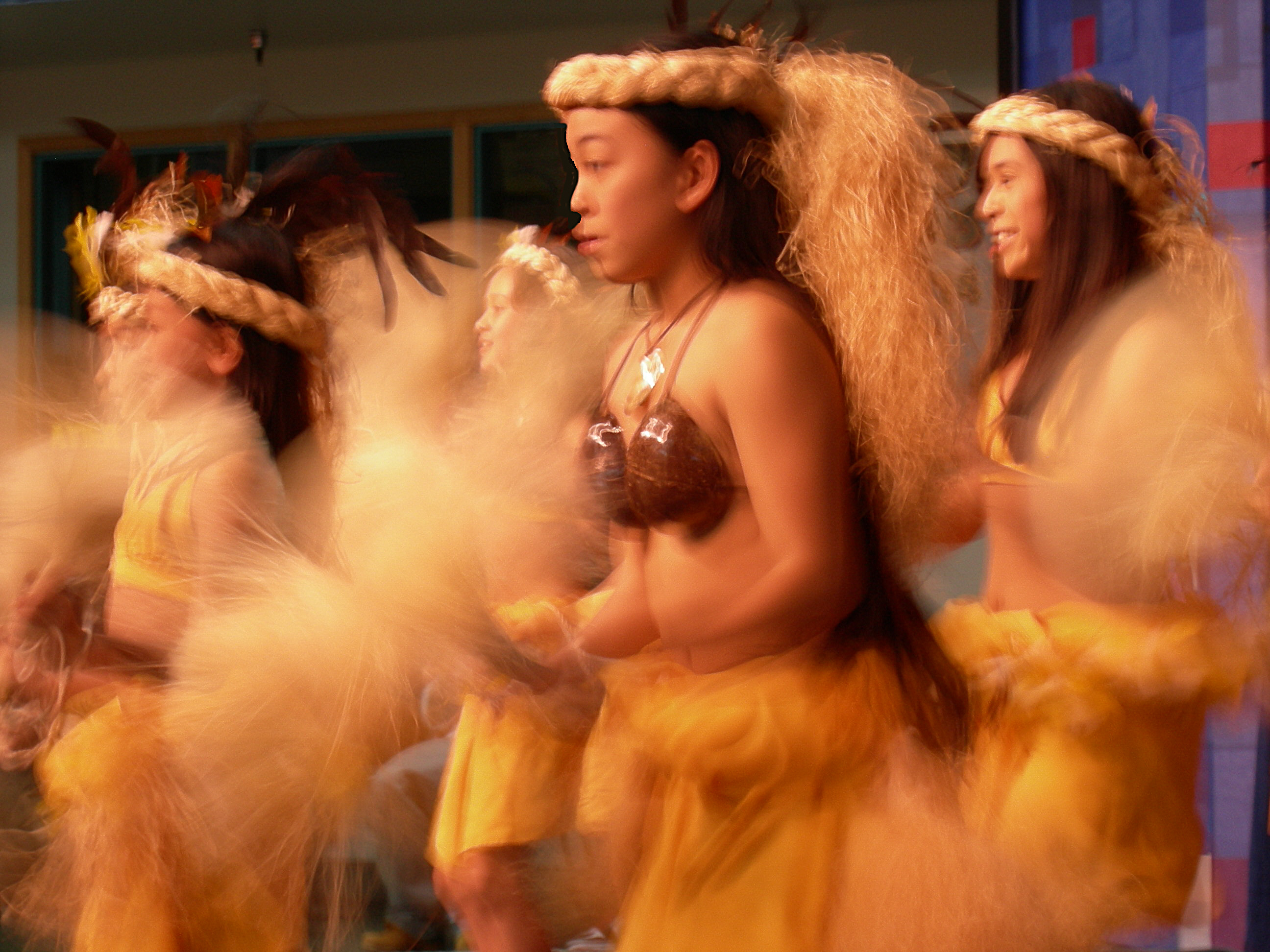 Dancers of hula hālau Ke Liko A`e O Lei Lehua perform at Center House, Seattle Center, as part of Festál's API (Asian Pacific Islander) Heritage Month Festival. The pictures of this event have generally undergone slight enhancement (sharpening, color adjustments) with Picture Publisher.